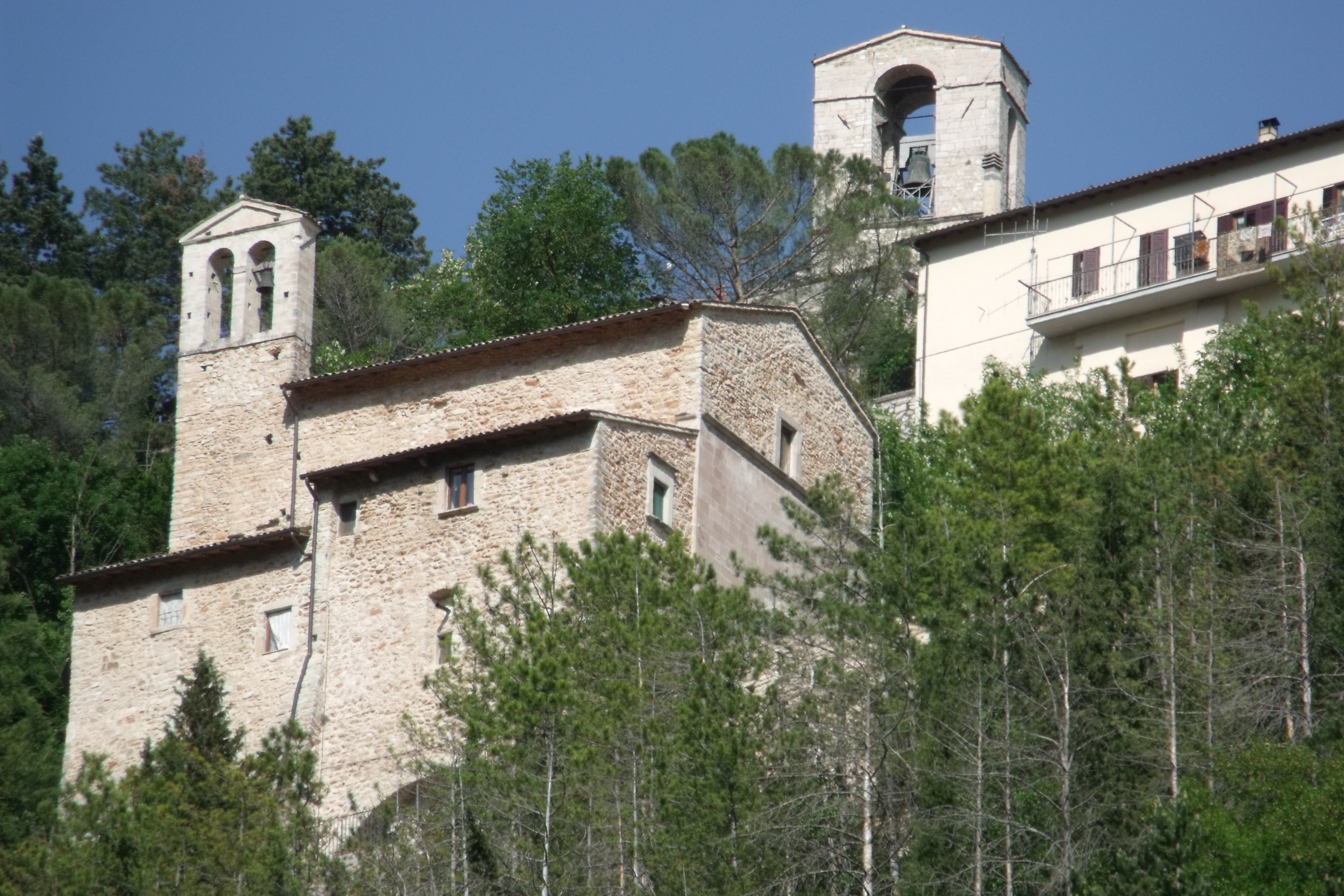 Church of Santa Maria De Libera and Torre Campanaria in Cerreto di Spoleto, Valnerina, Province of Perugia, Umbria, Italy